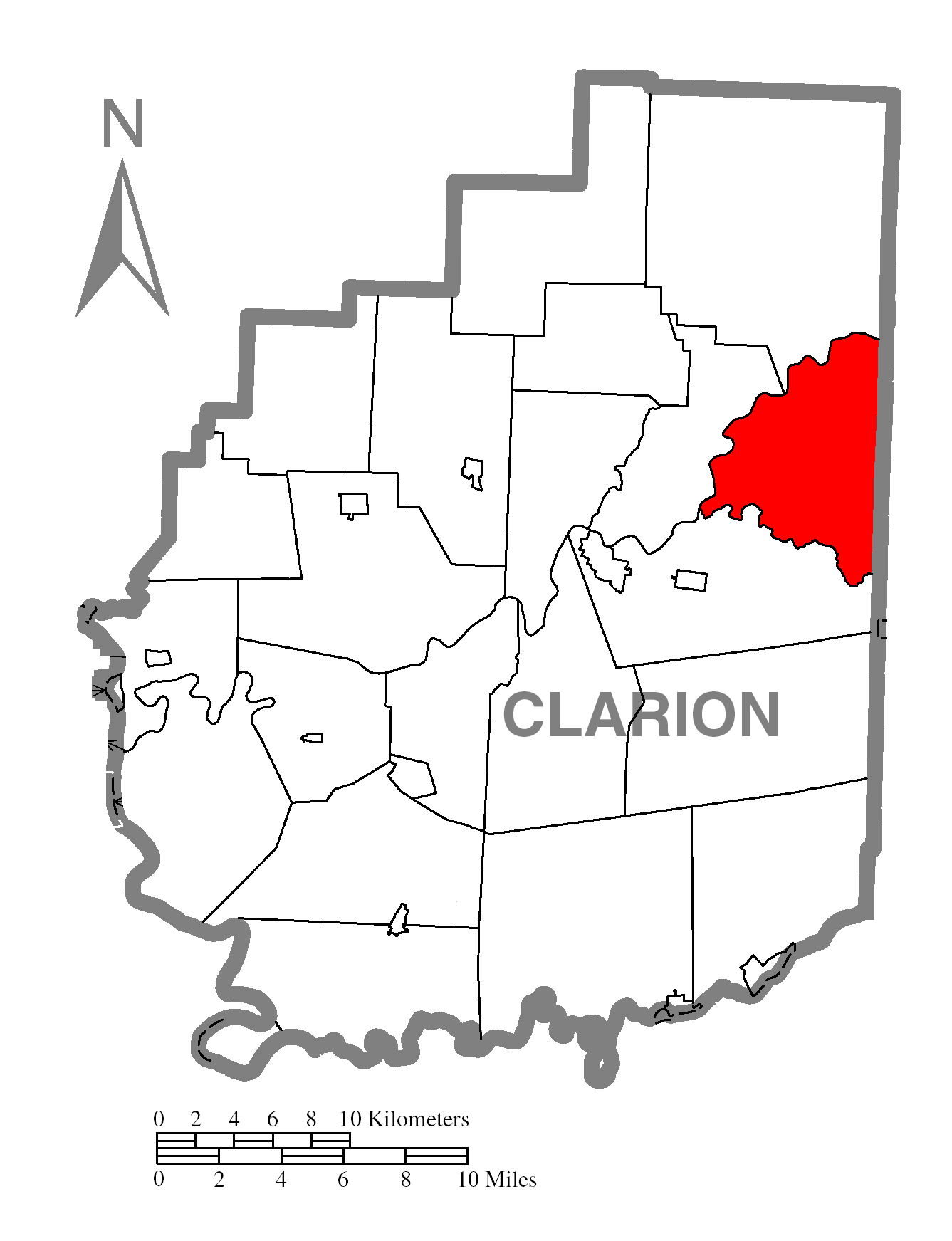 A map of Clarion County showing Millcreek Township, Pennsylvania (alternate) highlighted on the map.